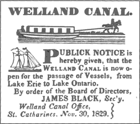 A publick notice about the opening of the First Welland Canal.